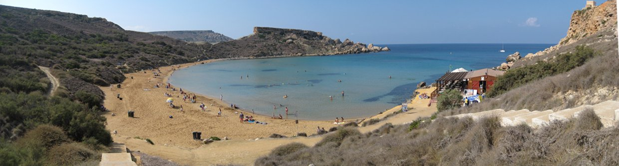 Ghajn Tuffieha bay at Malta